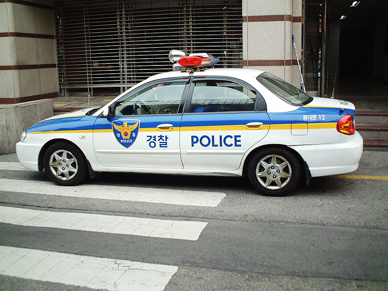 A police car in South Korea